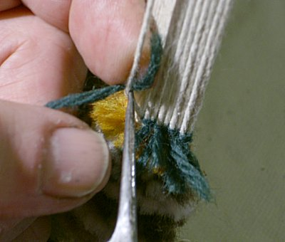 carpet knotting